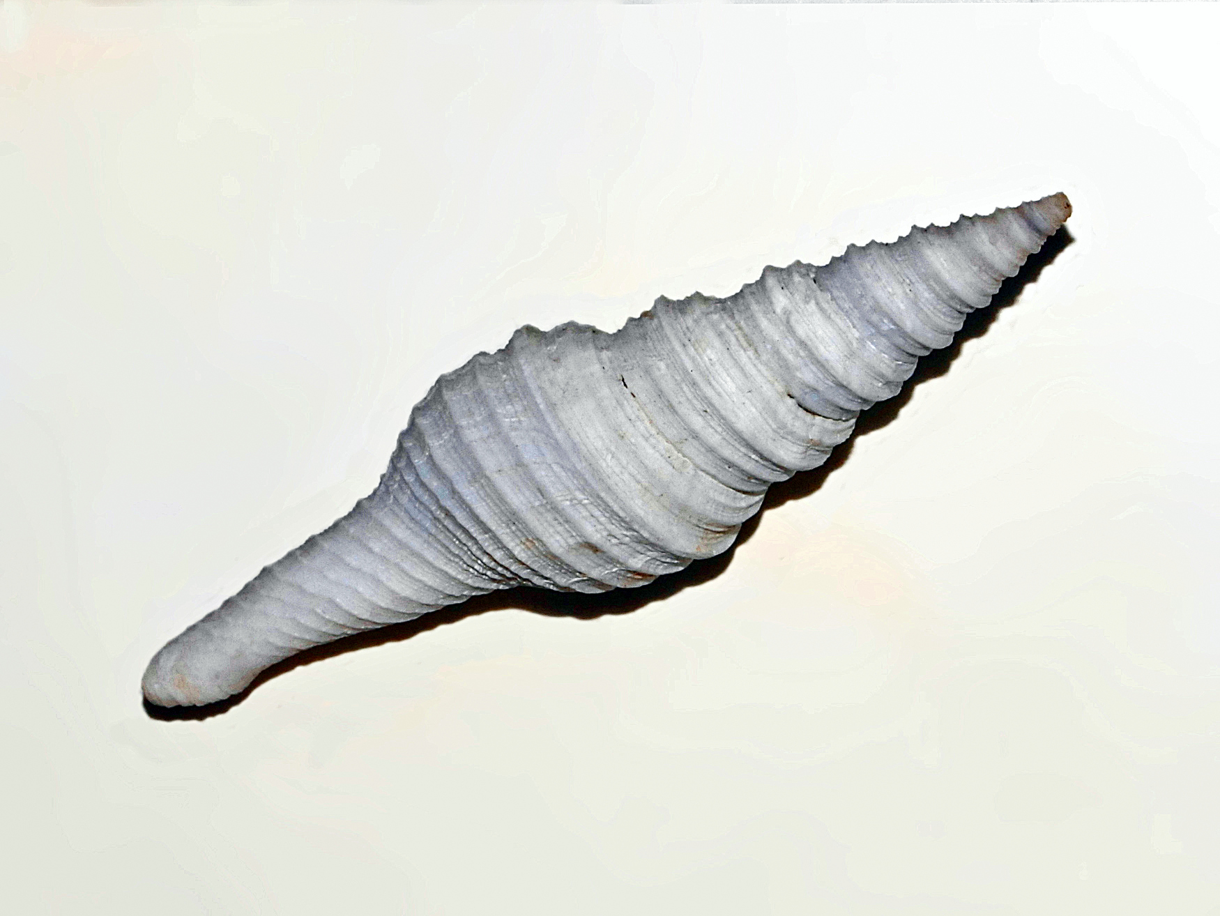 A shell of Polystira albida on display at the Museo Civico di Storia Naturale di Milano